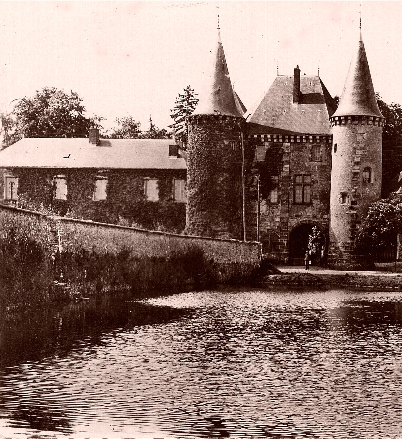 Residence of the representative Jean-Marie Calès in les Bordes, Yvelines, France